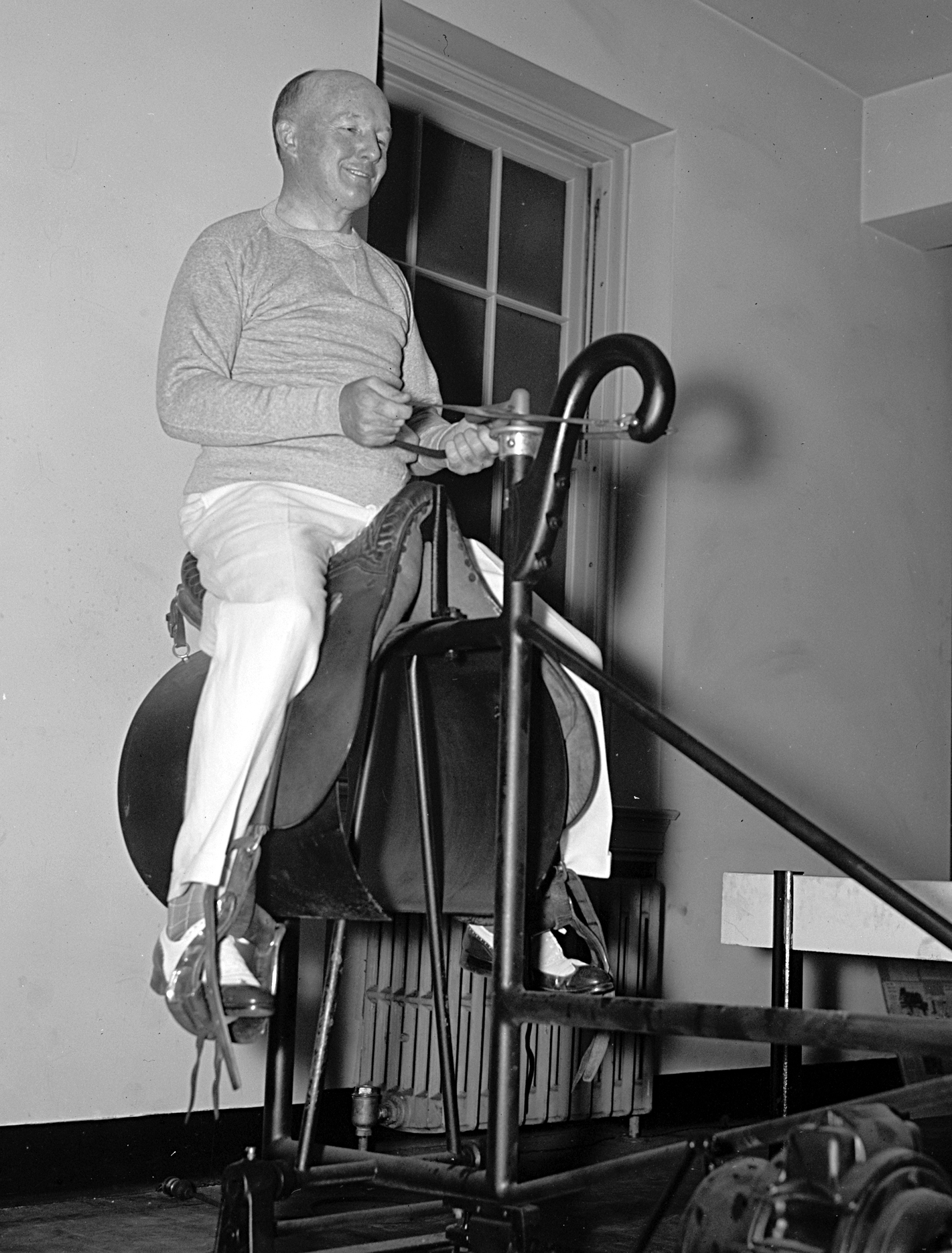 Charles R. Clason, US Representative from Massachusetts, on the electric horse at the House gym